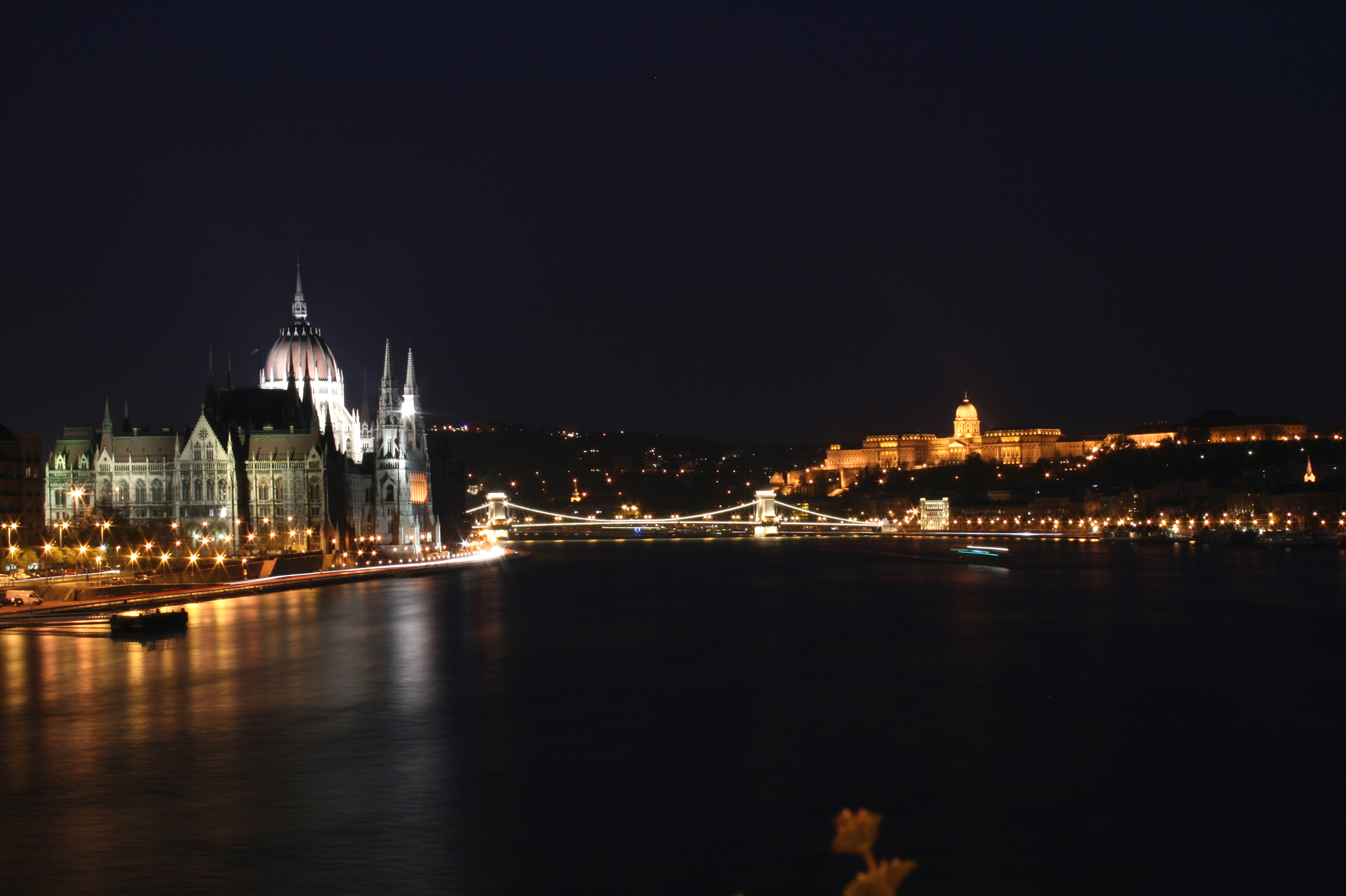 Night view on Budapest panorama from bridge over Danube river - Parliament of Hungary and Buda Castle, Hungary